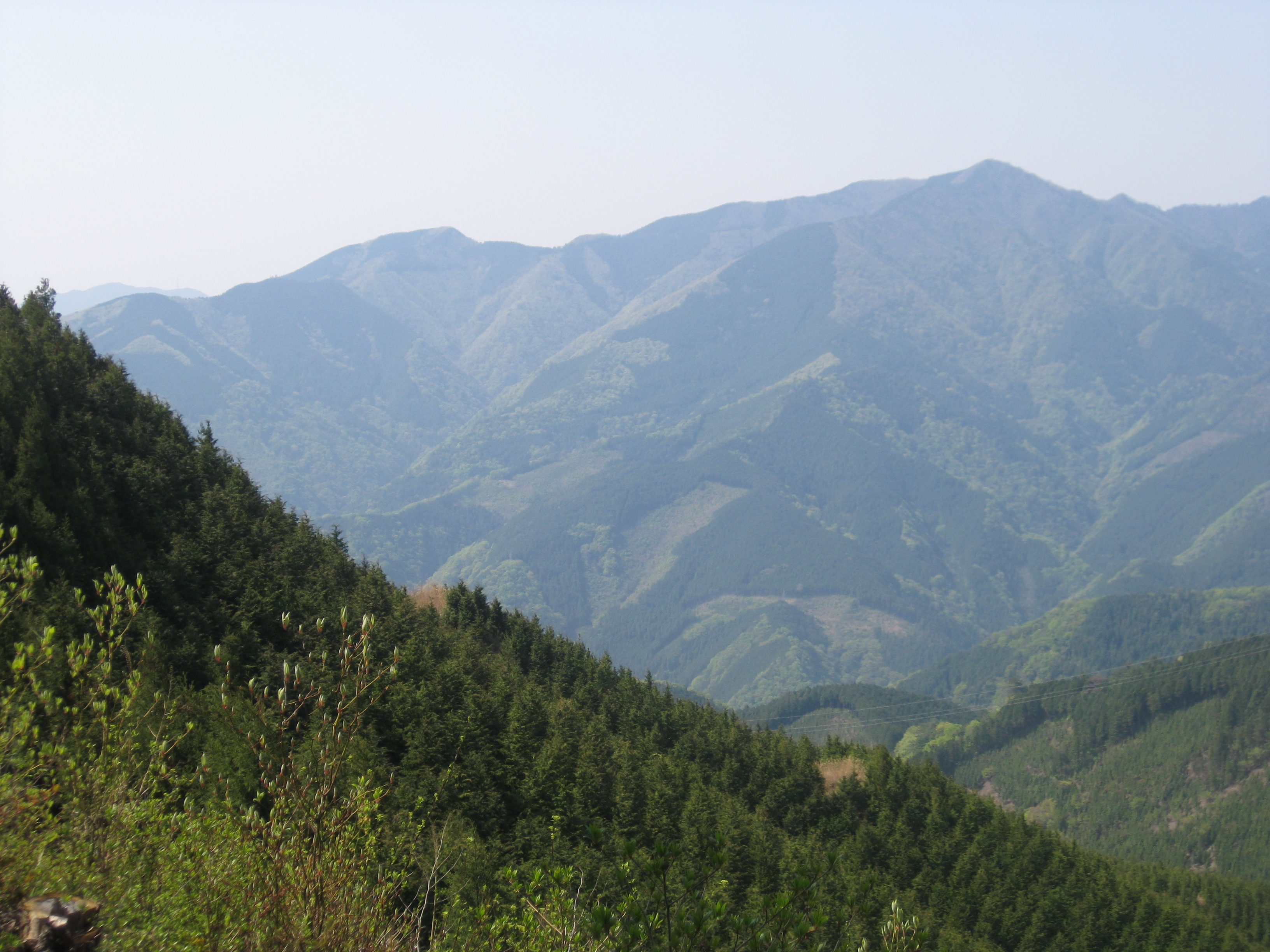 Mount Myojingamori as seen from the SSE in Ehime Prefecture, Shikoku, Japan.